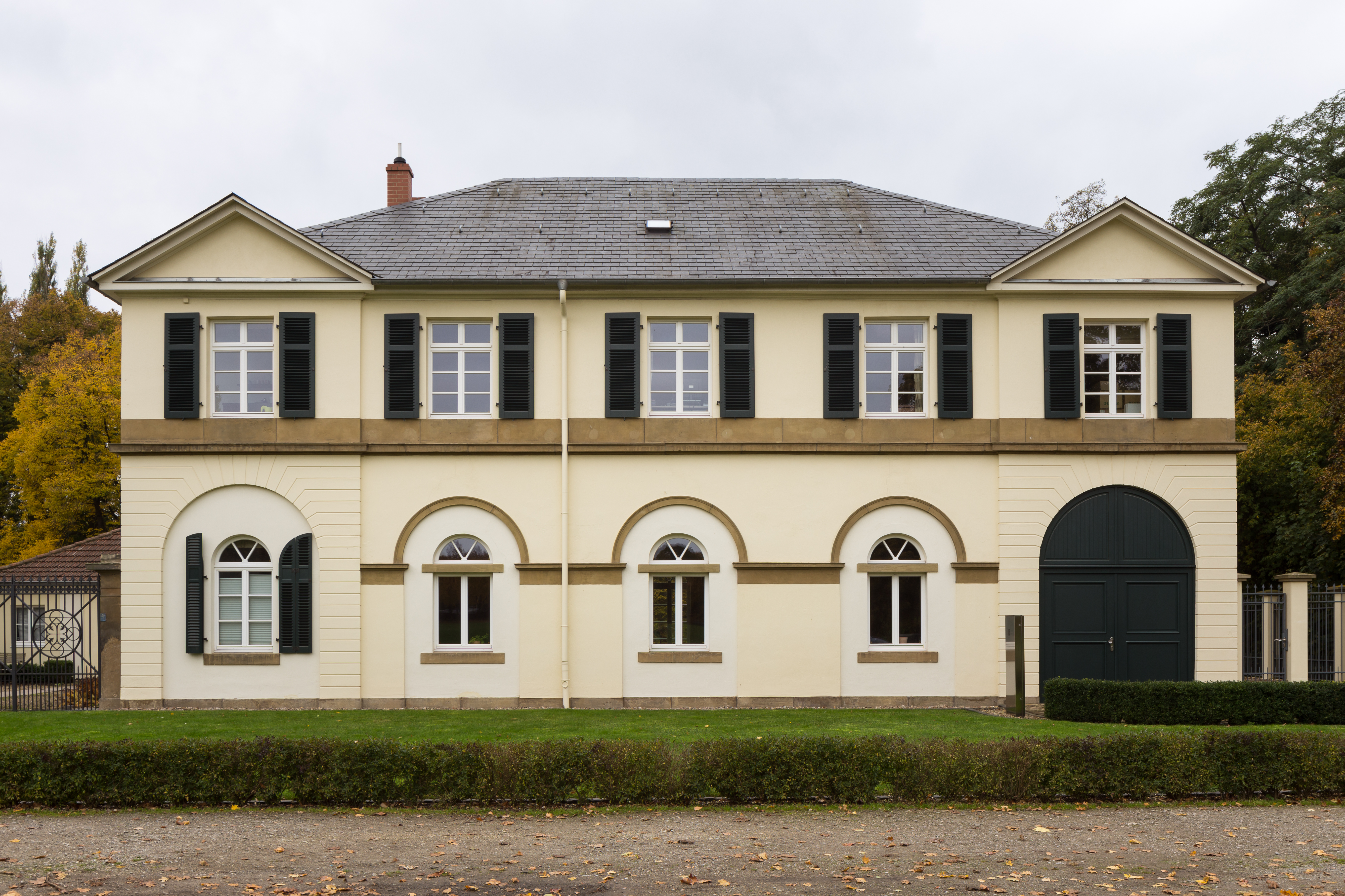 Cavalier house located at Jaegerstrasse no. 16 in Nordstadt quarter of Hannover, Germany. The building was created by architect G. L. F. Laves around 1826.